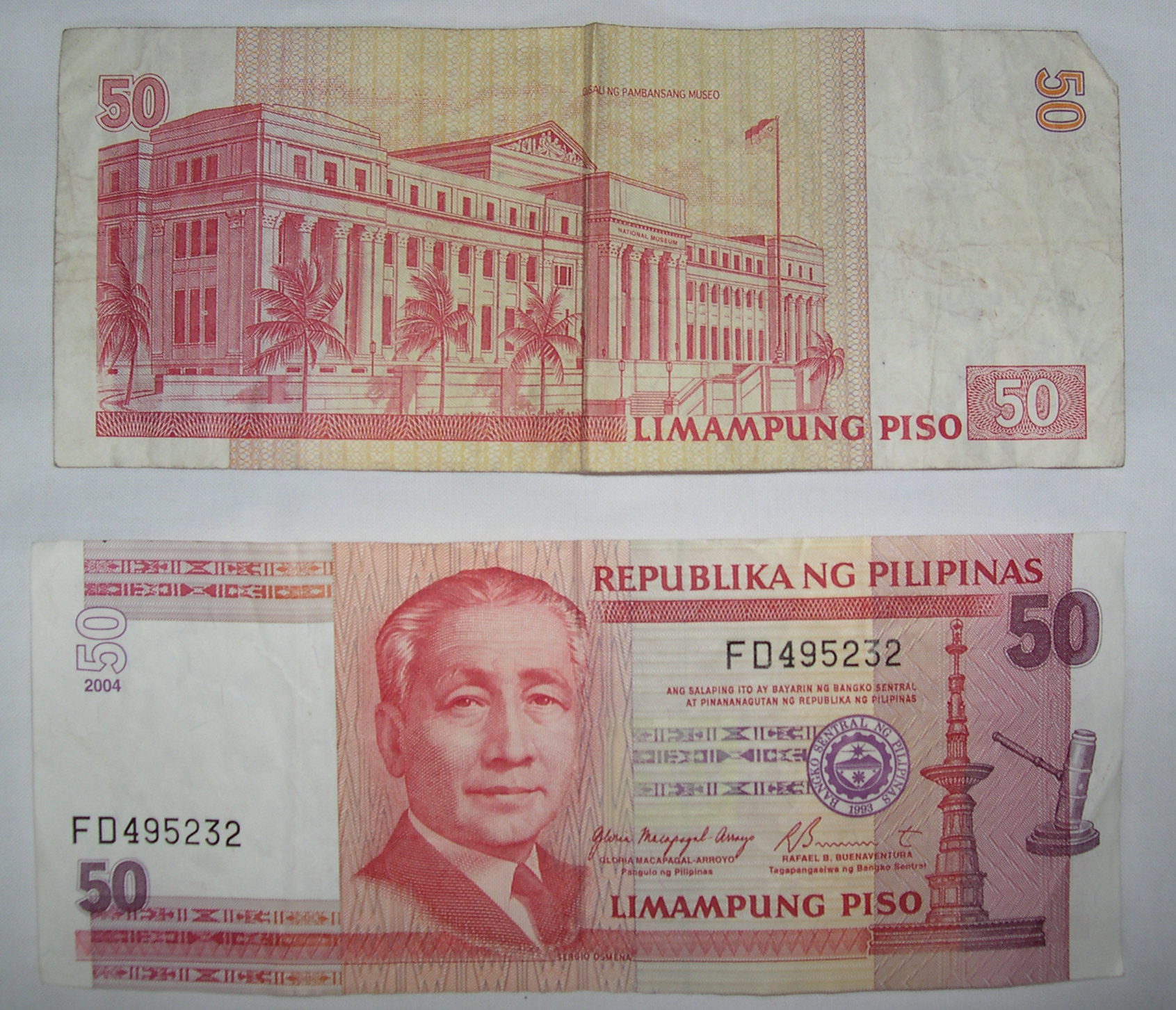 The front and back of a Philippine Peso bill of 50. Picture taken by Magalhães on March 27th 2006